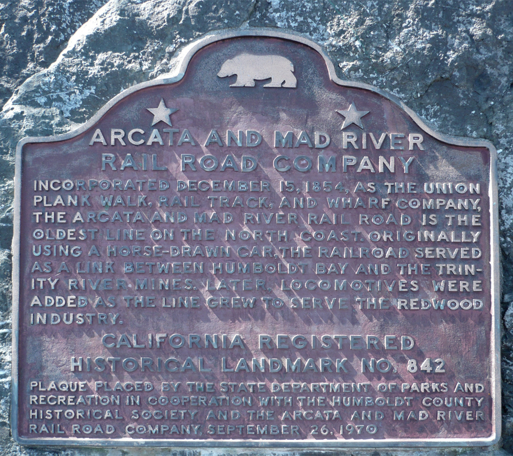 California Registered Historical Landmark No. 842, Arcata and Mad River Railroad. Plaque reads: " Arcata and Mad River Rail Road Company - Incorporated December 15, 1854 as the Union Plank Walk, Rail Track and Wharf Company, the Arcata and Mad River Rail Road is the oldest line on the North Coast. Originally using a horse-drawn car, the railroad served as a link between Humboldt Bay and the Trinity River mines. Later, Locomotives were added as the line grew to serve the redwood industry. California Registered Historical Landmark No. 842. Plaque placed by the State Department of Parks and Recreation in cooperation with the Humboldt County Historical Society and the Arcata and Mad River Rail Road Company, September 26, 1970."